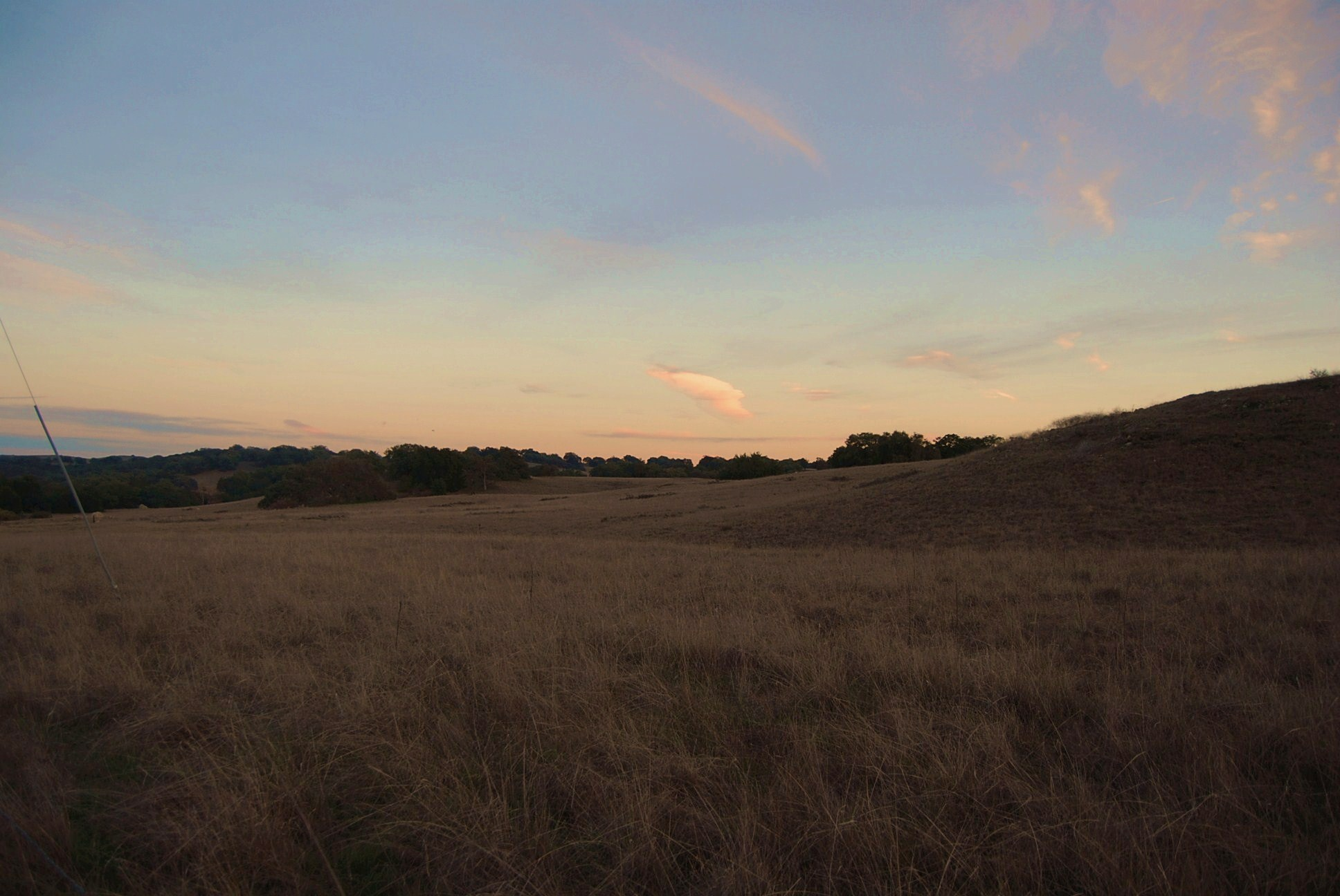 Grassland in the Santa Rosa Plateau, California, USA.